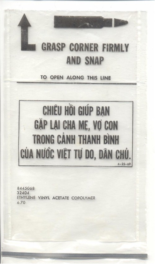 Description: Photo of M16 Magazine Cover with Chieu Hoi inscription. Inscription: Vietnamese: Chieu Hoi giup ban gap lai cha me, vo con trong canh thanh binh cua nuoc Viet tu do, dan chu.